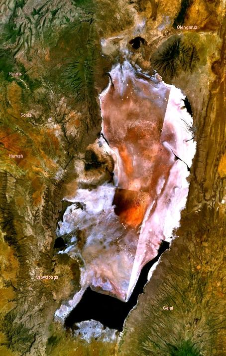 Lake Natron, Tanzania, as seen from space.